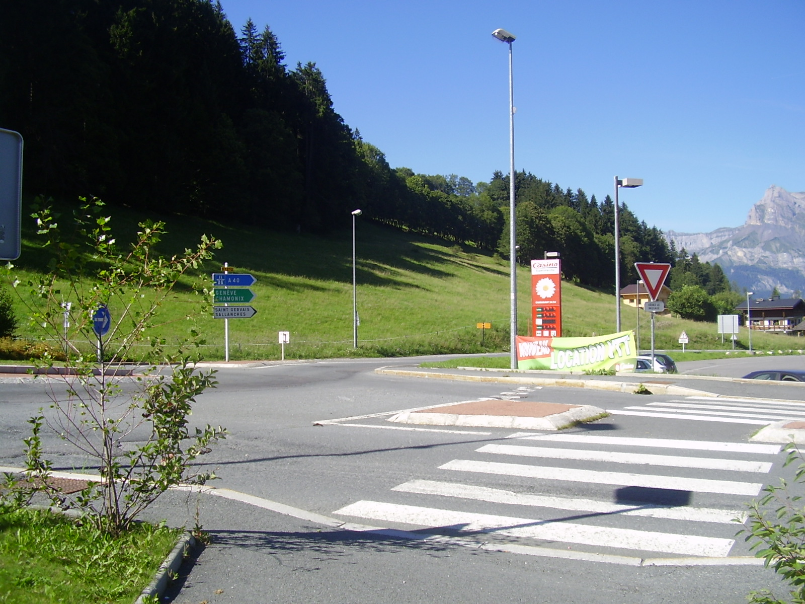 Departmental road 1212 towards Genève, Chamonix, Saint-Gervais, Sallanches from Demi-Quartier (74) and roundabout deserving a supermarket.